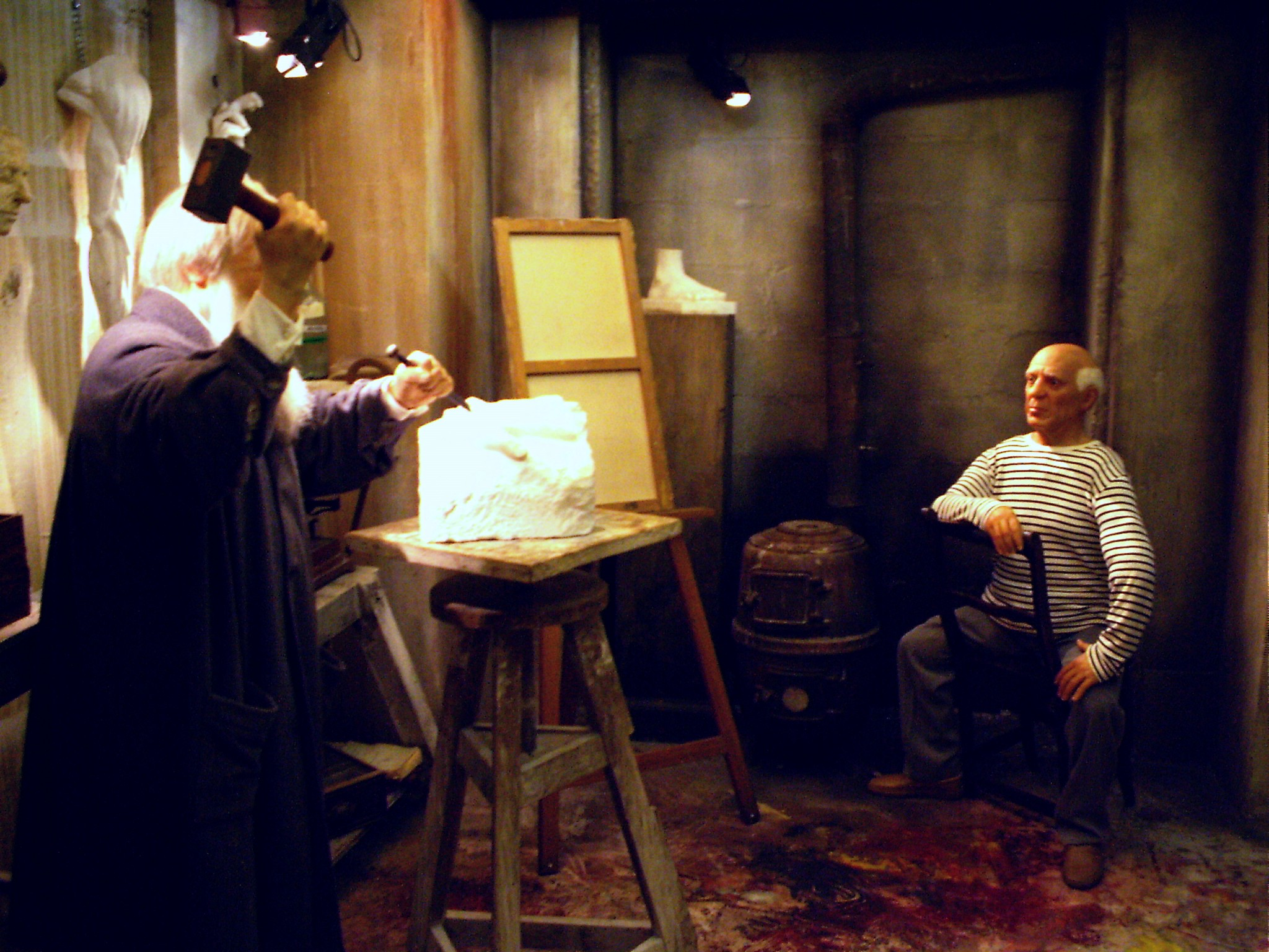 Picasso and Rodin scene in the Greven wax museum in Paris (from 2006)